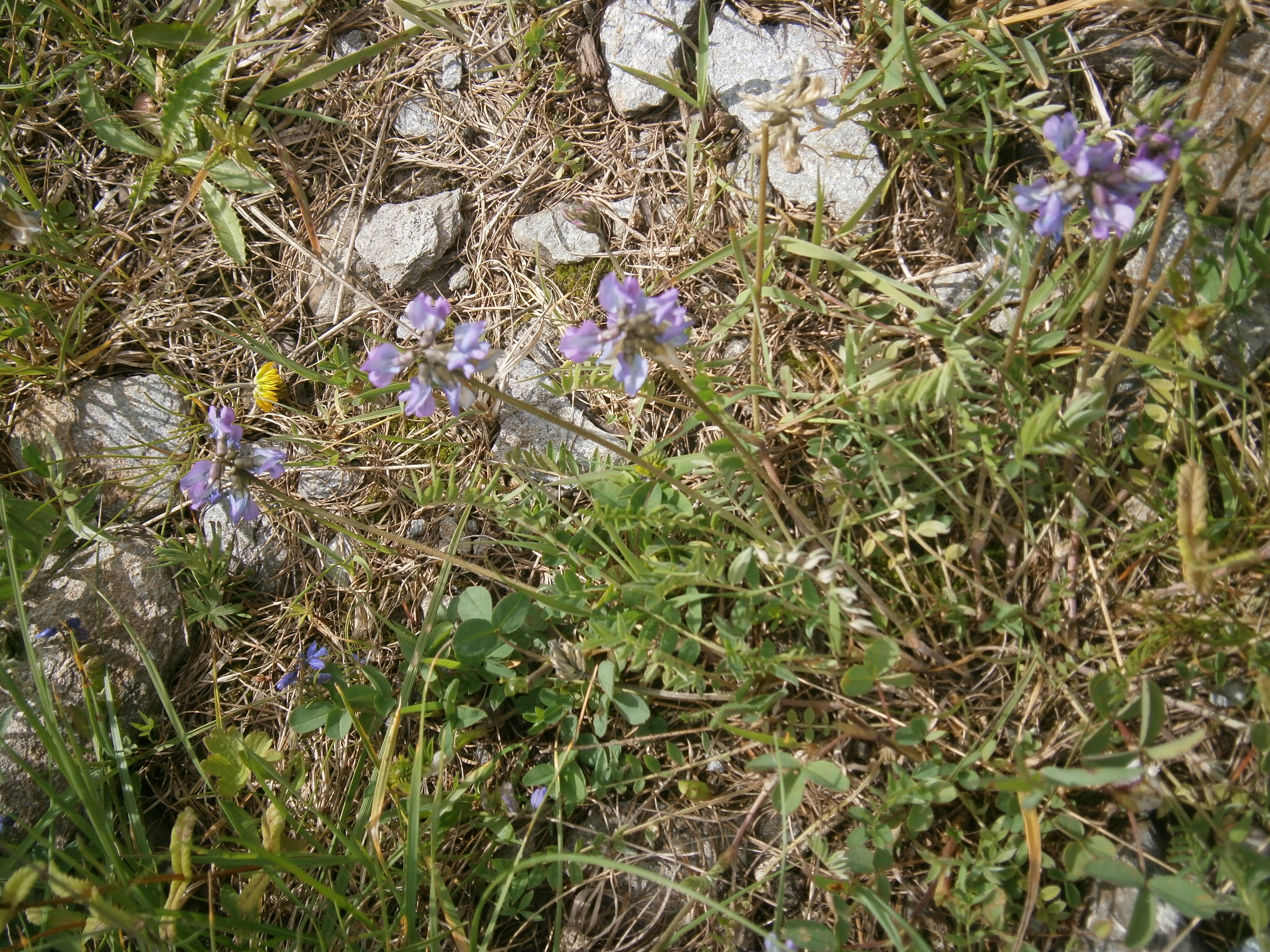 Oxytropis lapponica